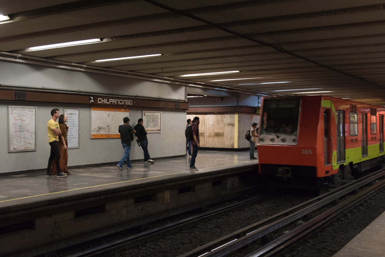 Platform of Metro Chilpancingo, September 2018